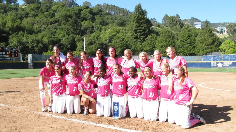 The University of California Golden bears clinch the 2012 Pacific-12 Conference championship. The Bears are wearing pink because it was "strike out cancer" day.